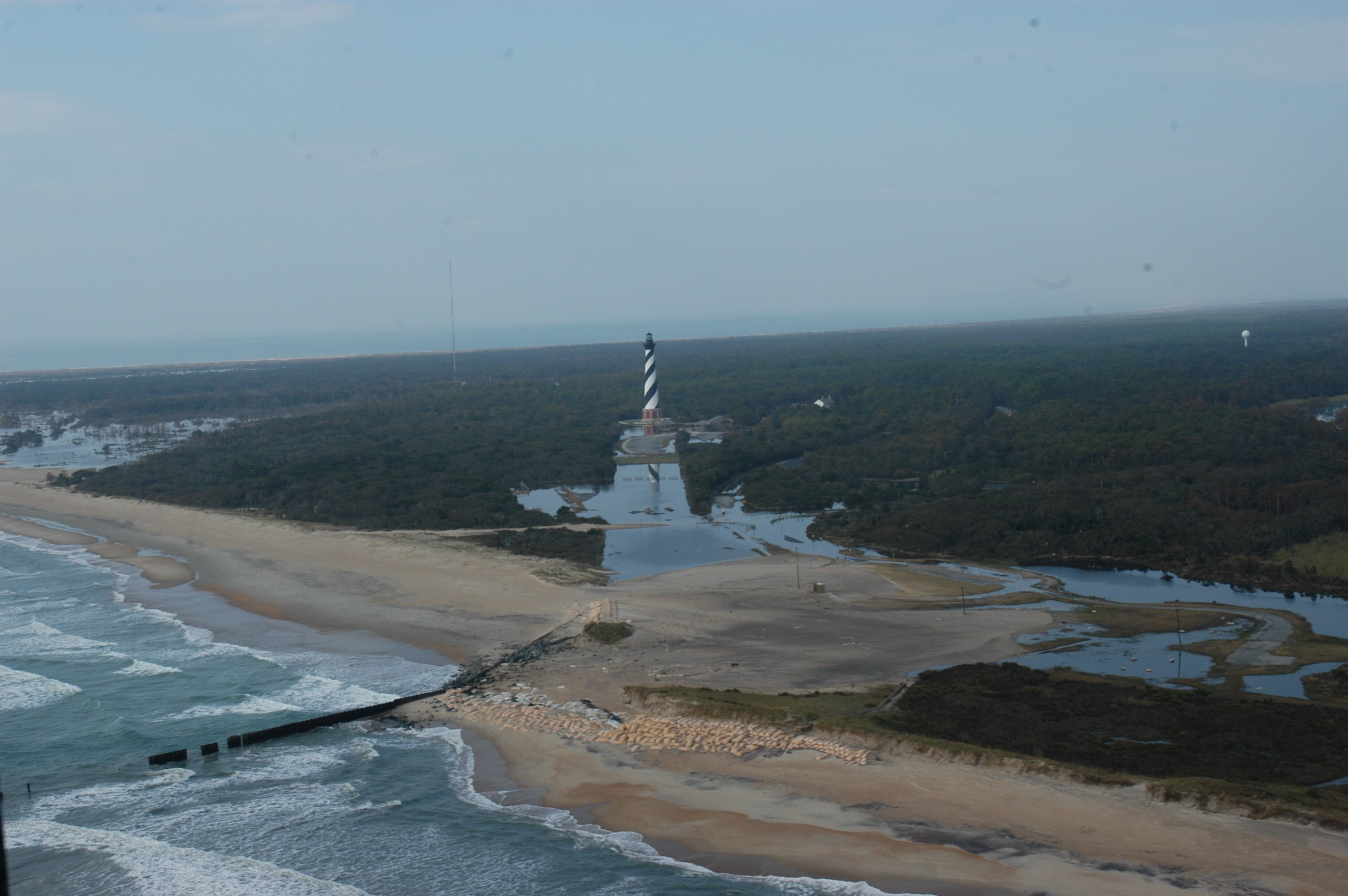 Cape Hatteras, NC -- The Cape Hatteras Lighthouse is safe from the beach erosion caused by Hurricane Isabel since it was moved inland in the last couple of years.